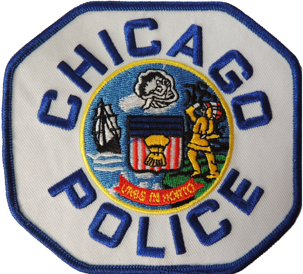 Patch of the Chicago Police Department